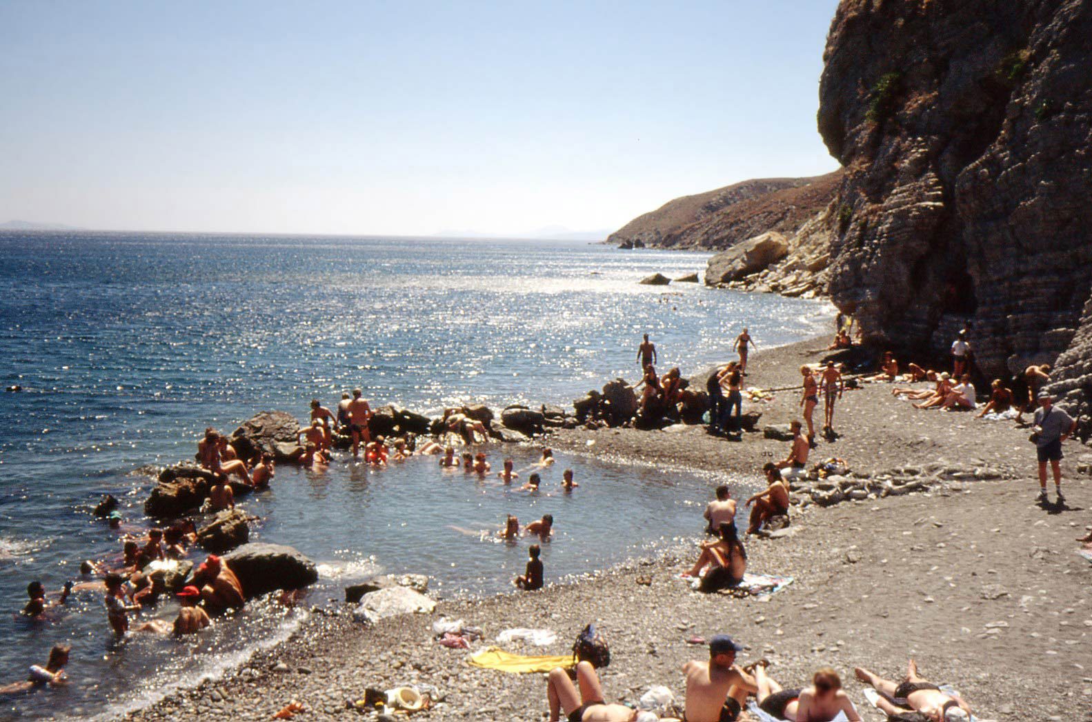 Embros Therme auf Kos